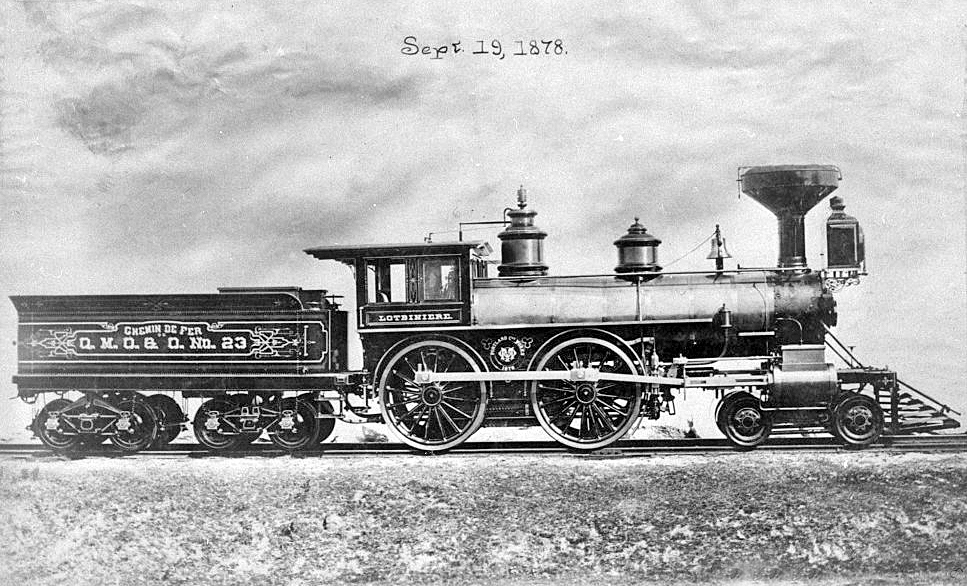 Quebec, Montreal, Ottawa & Occidentat Railway's steam locomotive (1878) named for Prime Minister of Quebec Province, H.G. Joly de Lotbinière; a similar locomotive was named after curé Labelle